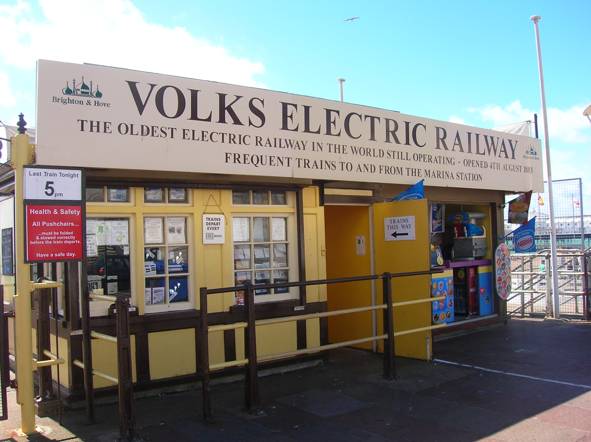 Brighton Volks Aquarium Station